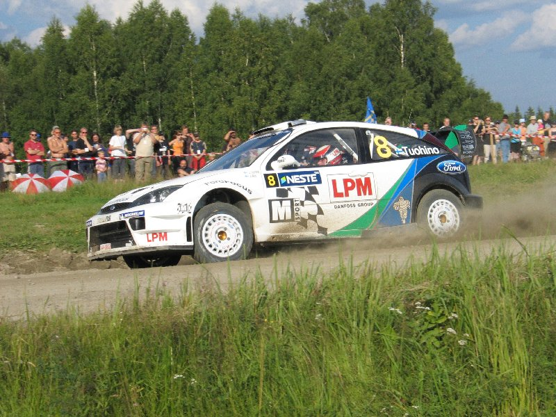 Janne Tuohino driving his Ford Focus RS WRC 04 at the 2004 Rally Finland.